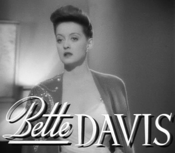 Cropped screenshot of Bette Davis from the trailer for the film Now, Voyager.